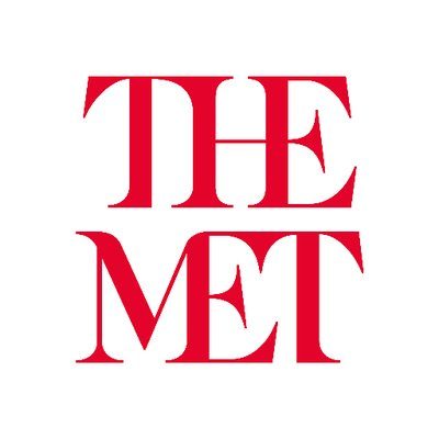 Metropolitan Museum of Art logo